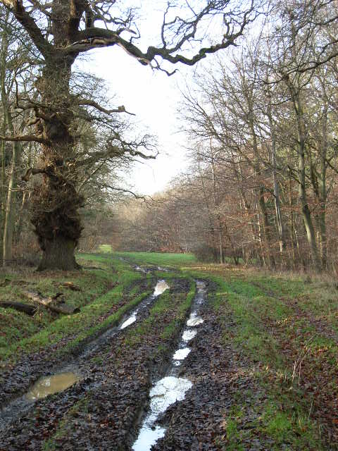 Track, Holliday's Plain. Looking west from the eastern edge of the square.